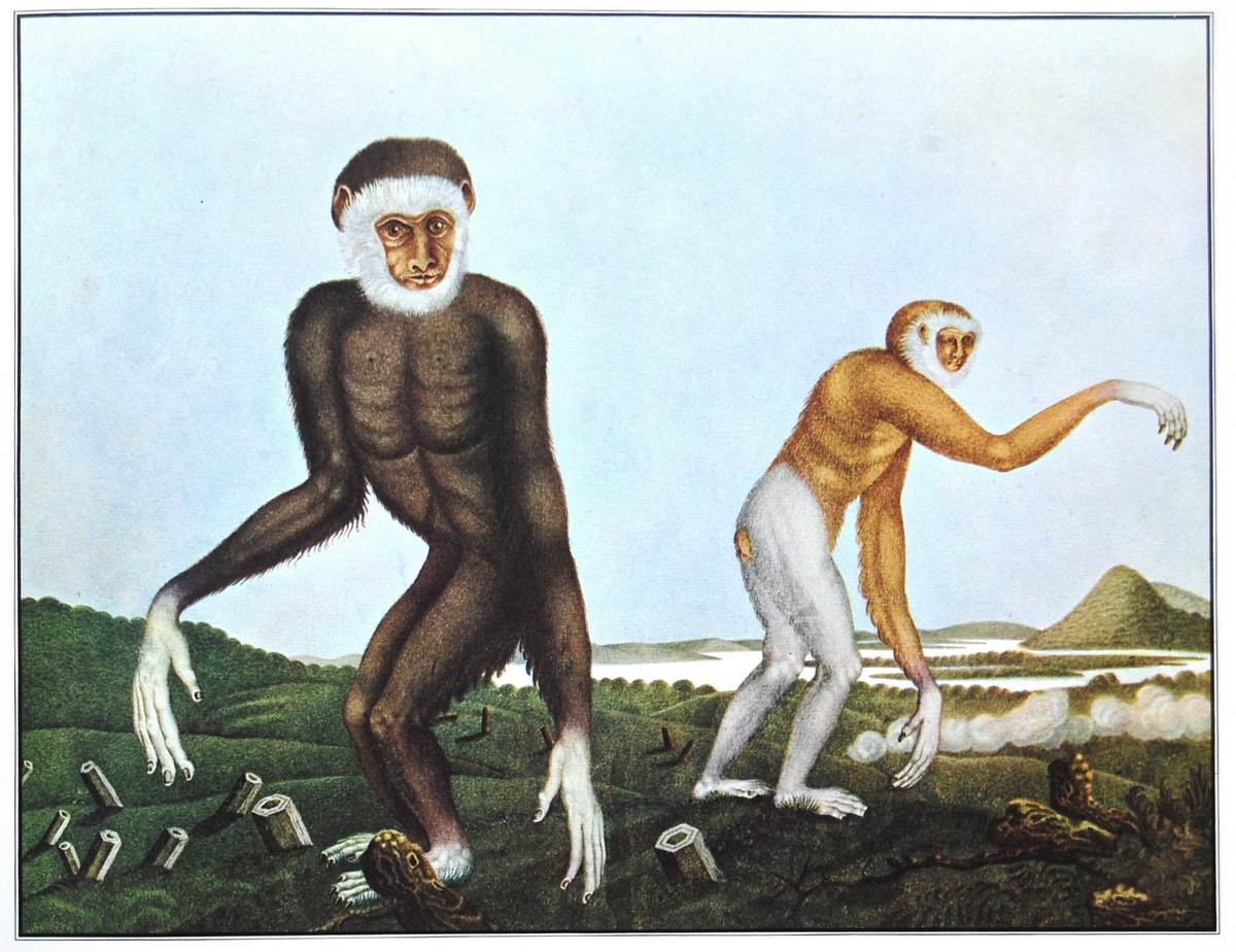 from the "Bestiarium"